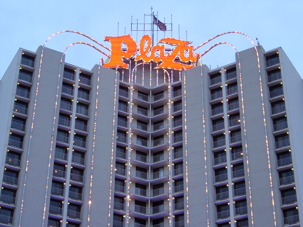 The Plaza Hotel & Casino taken from across the street at the Fremont Street Experience.